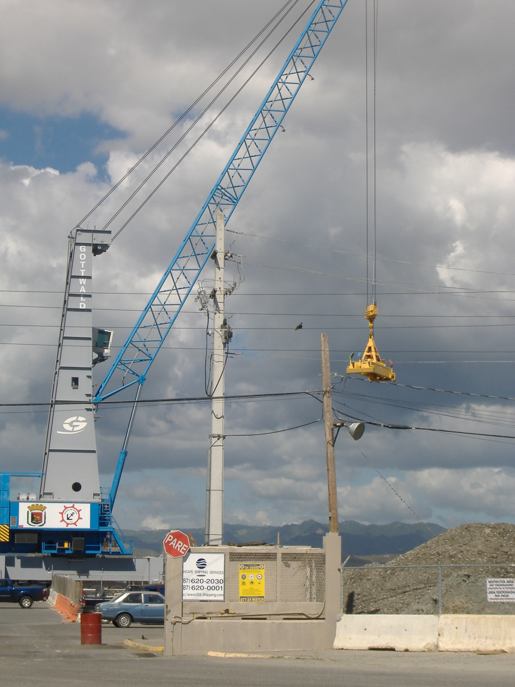 Port of Ponce quay crane. Picture taken by myself.